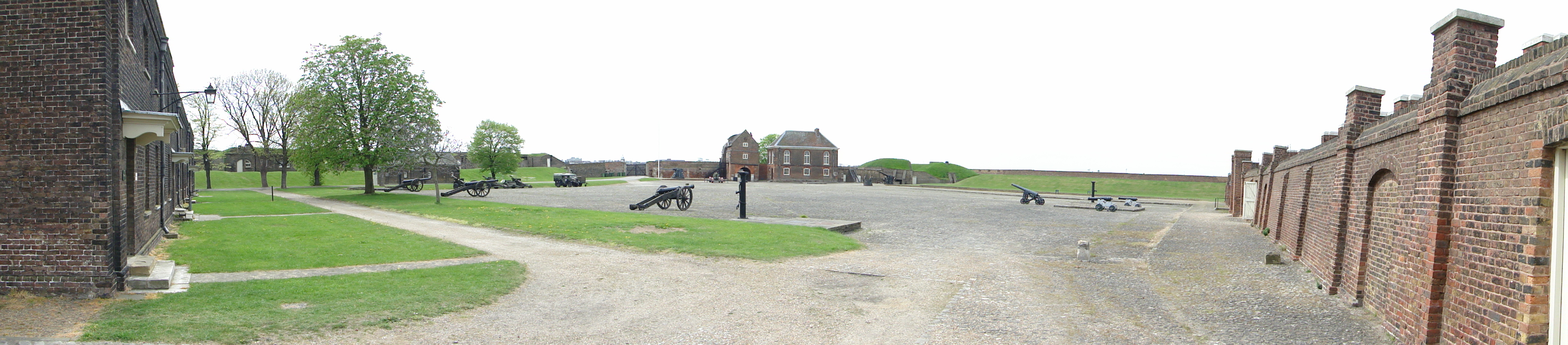 Tilbury Fort, Essex